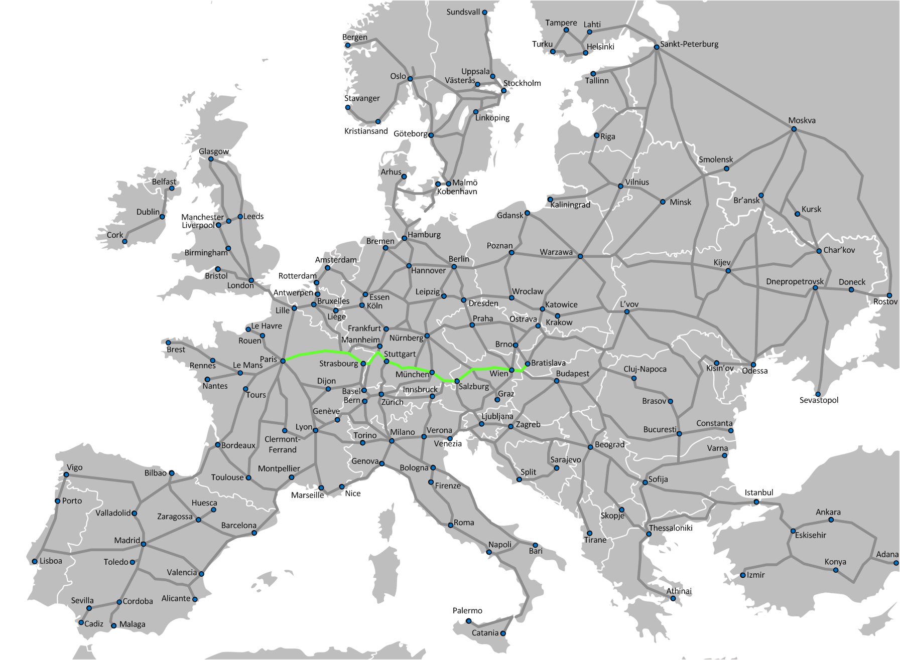 Trans-European Network Project 17 (TEN 17), Magistrale for Europe, High Speed Railroad Line Paris-Bratislava